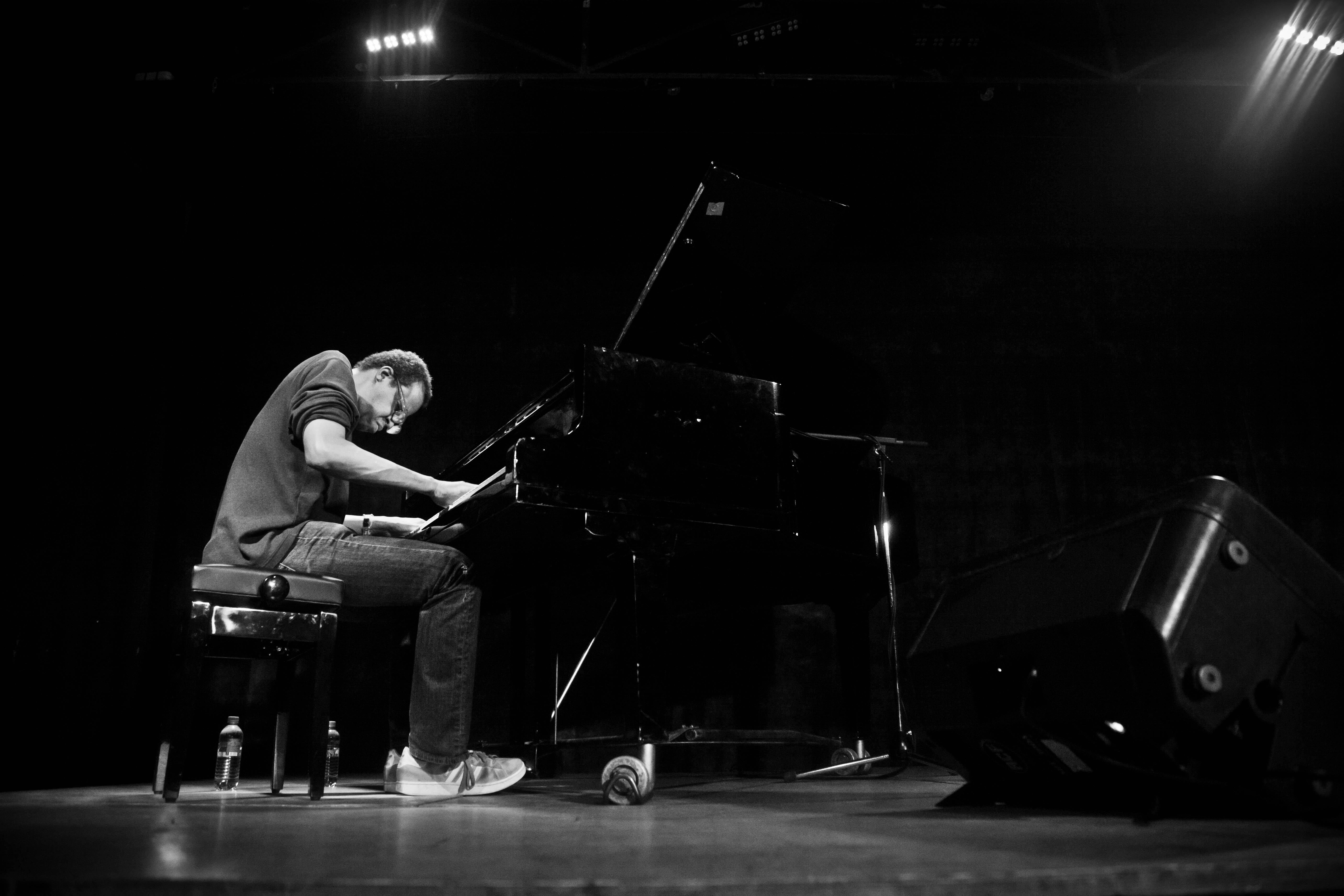 Matthew Shipp and Ivo Perelman in Moscow club "DOM"